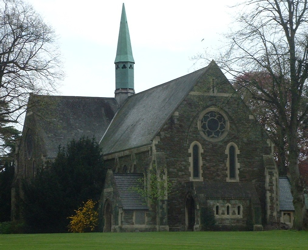 The old chapel at Glenside (now museum). Taken by Rod Ward 2nd April 2006